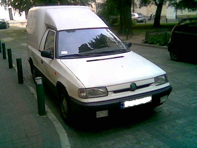 Skoda Pickup seen in Warsaw. Picture taken by mobile phone.